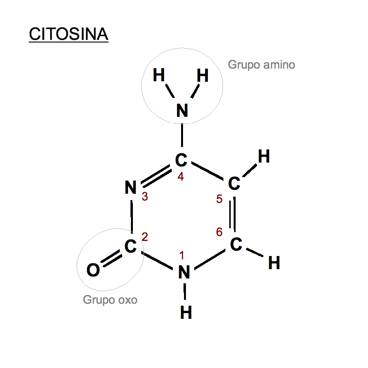 Cytosine